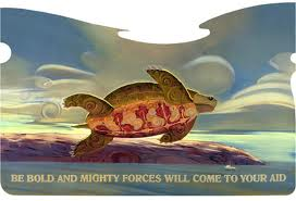 "Tom Over Manana" is a painting by Victor Stabin and is a part of his "Turtle Series".